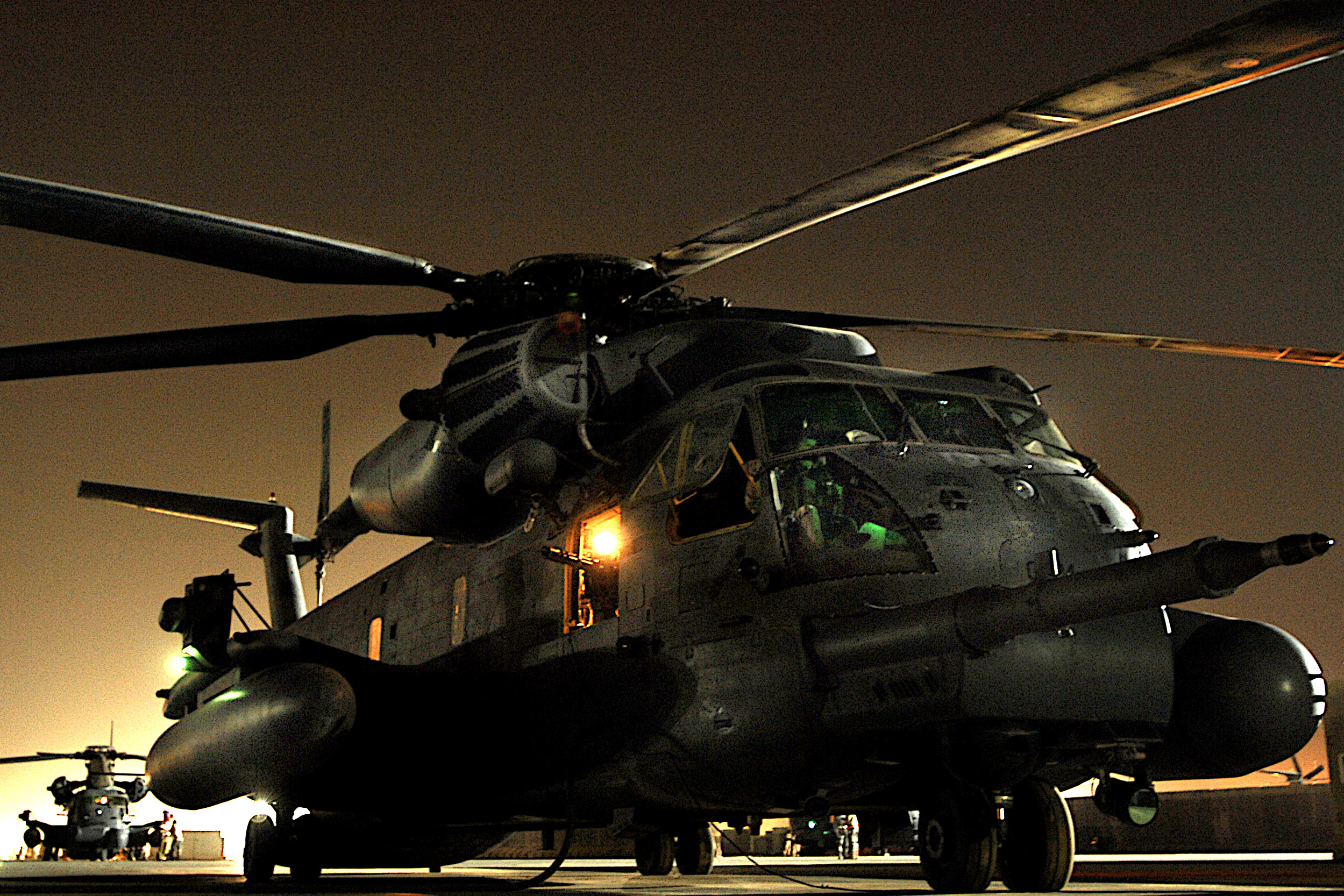 Final Mission. MH-53 Pave Low helicopters prepare to take off for their final combat mission on Sept. 27, 2008, in Iraq. The MH-53, the largest and most technologically advanced helicopter in the Air Force with a record dating back to the Vietnam War, was retired from the Air Force inventory on Sept. 30, 2008.